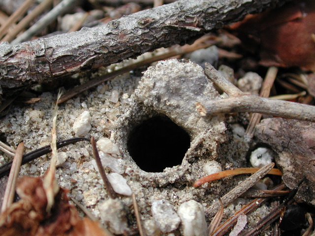 Aliatypus janus trapdoor, opened, in northern California.